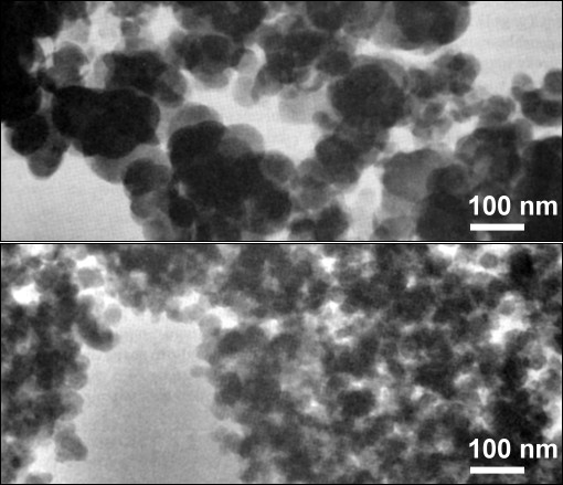 TEM picture of carbon black. Thanks to the photographer for transfer of all rights to me (Anton, 2006).